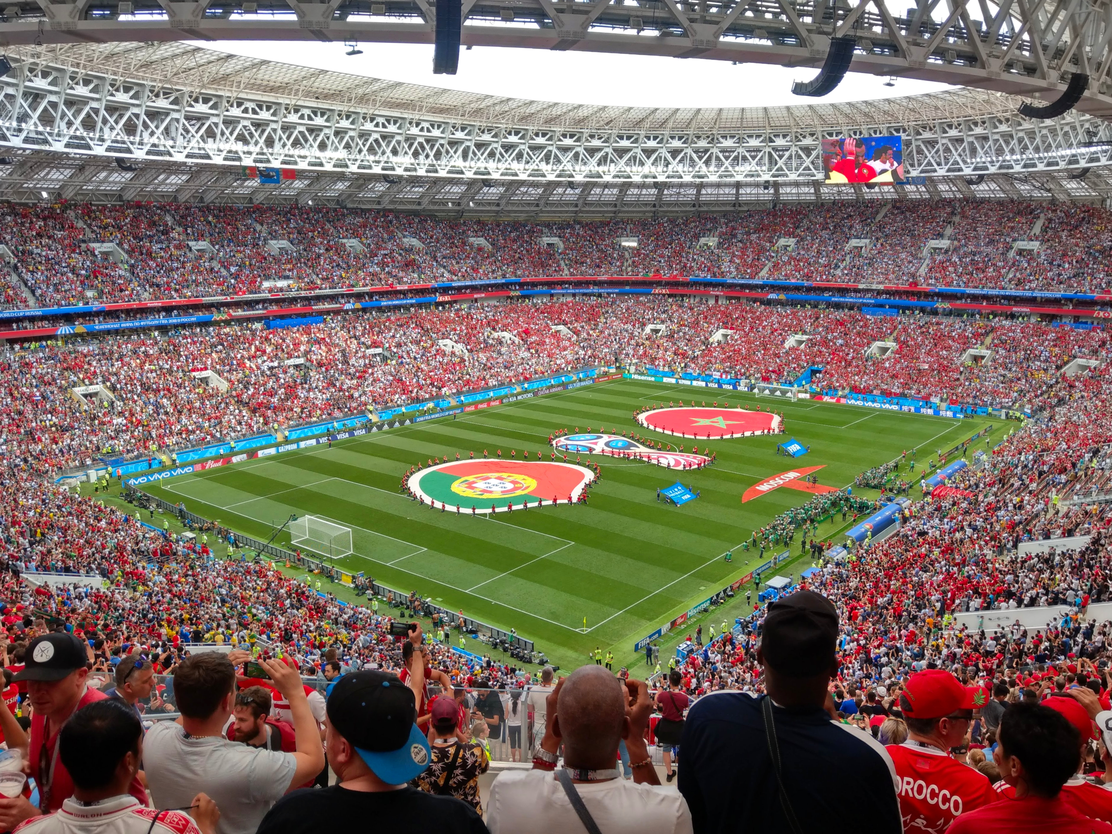 Photograph by Serg Stallone of the 2018 FIFA World Cup Group B match between the Portugal national football team and Morocco national football team at Luzhniki Stadium. The stadium, originally built in 1956 to serve as the centerpiece of the former Soviet Union's athletic culture, was converted from a single-tier stadium to a double-tier, 78,000+ seat stadium for the FIFA World Cup. As the largest stadium at the tournament, it was designated the host of the 2018 FIFA World Cup Final, which would be contested by the France national football team and Croatia national football team.